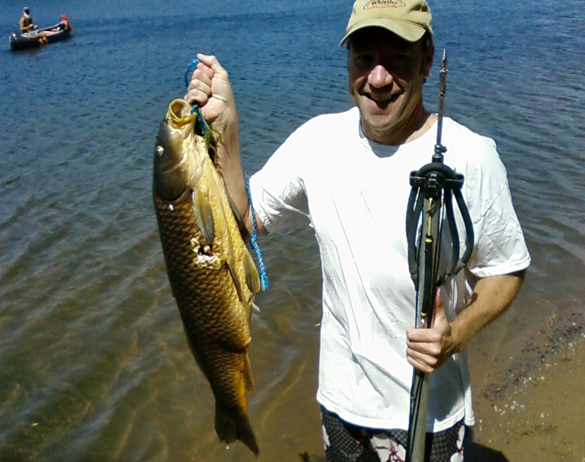 A common carp taken by a spearfisherman in a Minnesota lake.